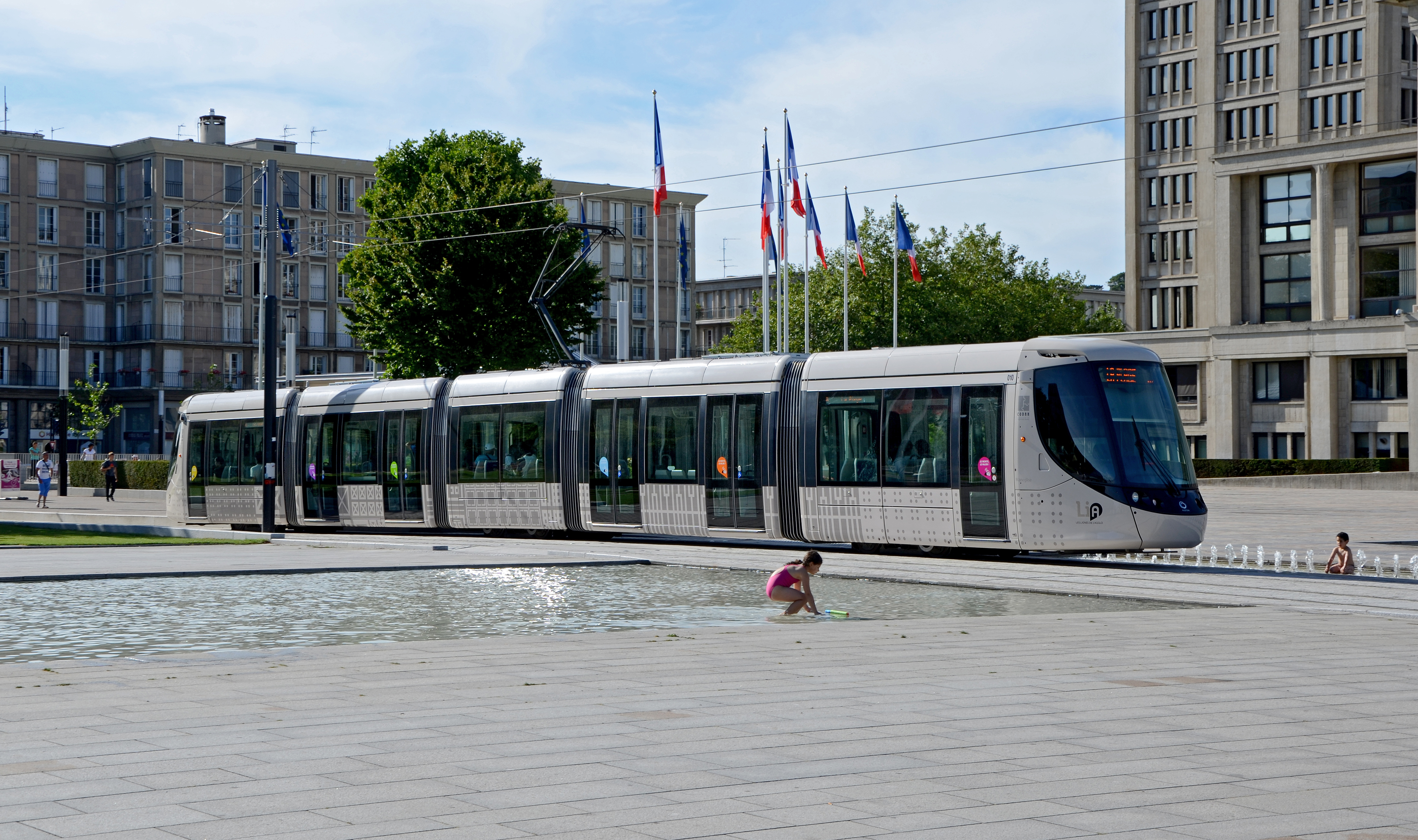 Tramway in place de l'Hotel de ville, Le Havre, Seine Maritime, France